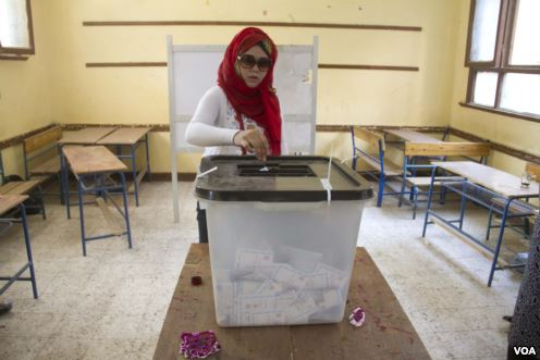 A woman votes in Cairo, May 27, 2014.